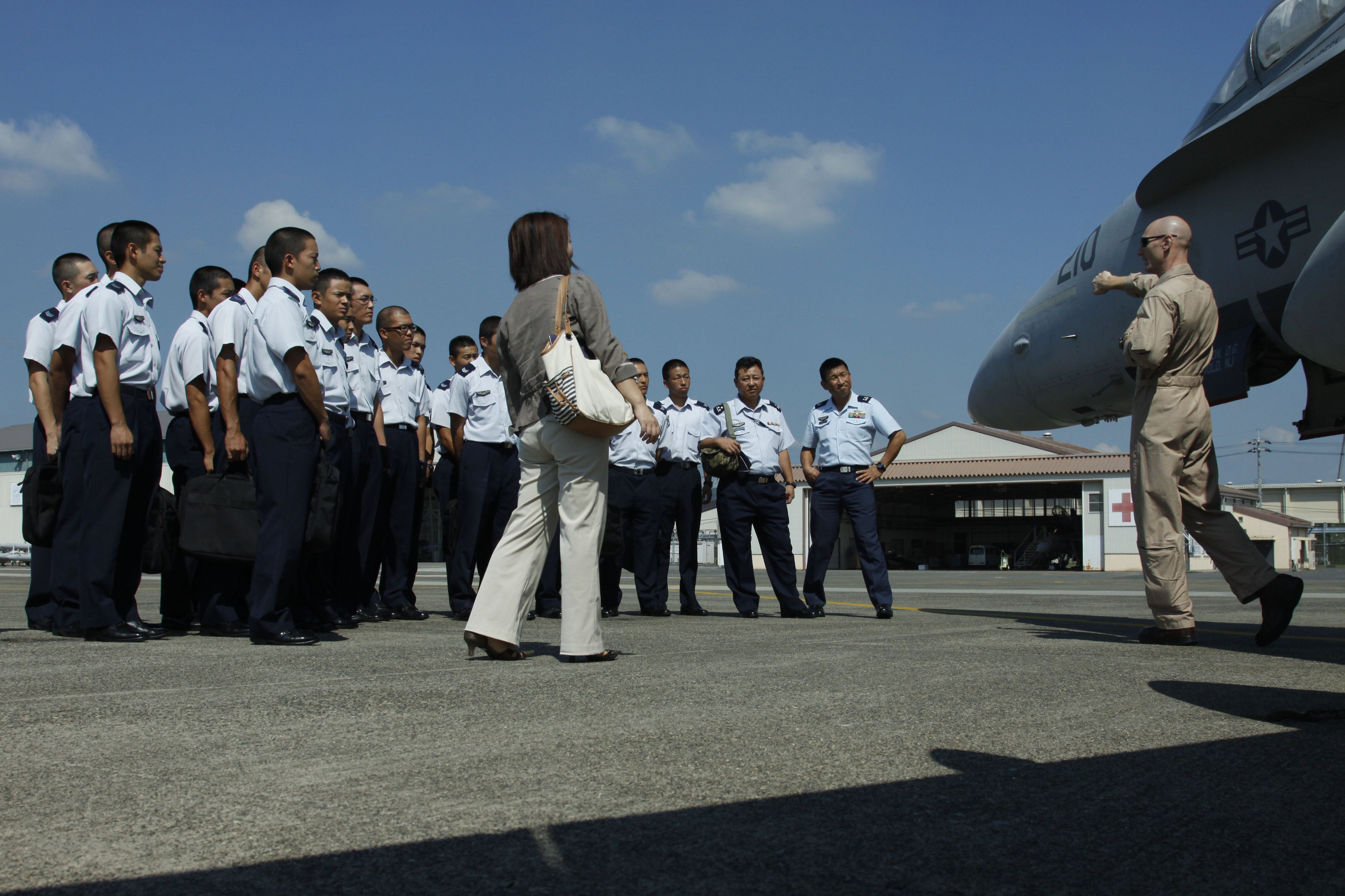 Capt. Anthony D. Ramey, Marine Aircraft Group 12 current operations officer, explains to Japan Air Self-Defense Force cadets the importance of pre-checks before a flight during a Japanese Observer Exchange Program tour here Sept. 27. The tour refocused the cadets’ efforts to complete flight training.